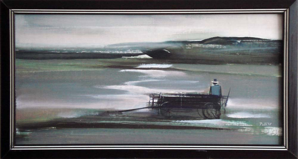 Early springtime. János Pető (hungarian painter, 1990, oil, 35×69 cm) Own property